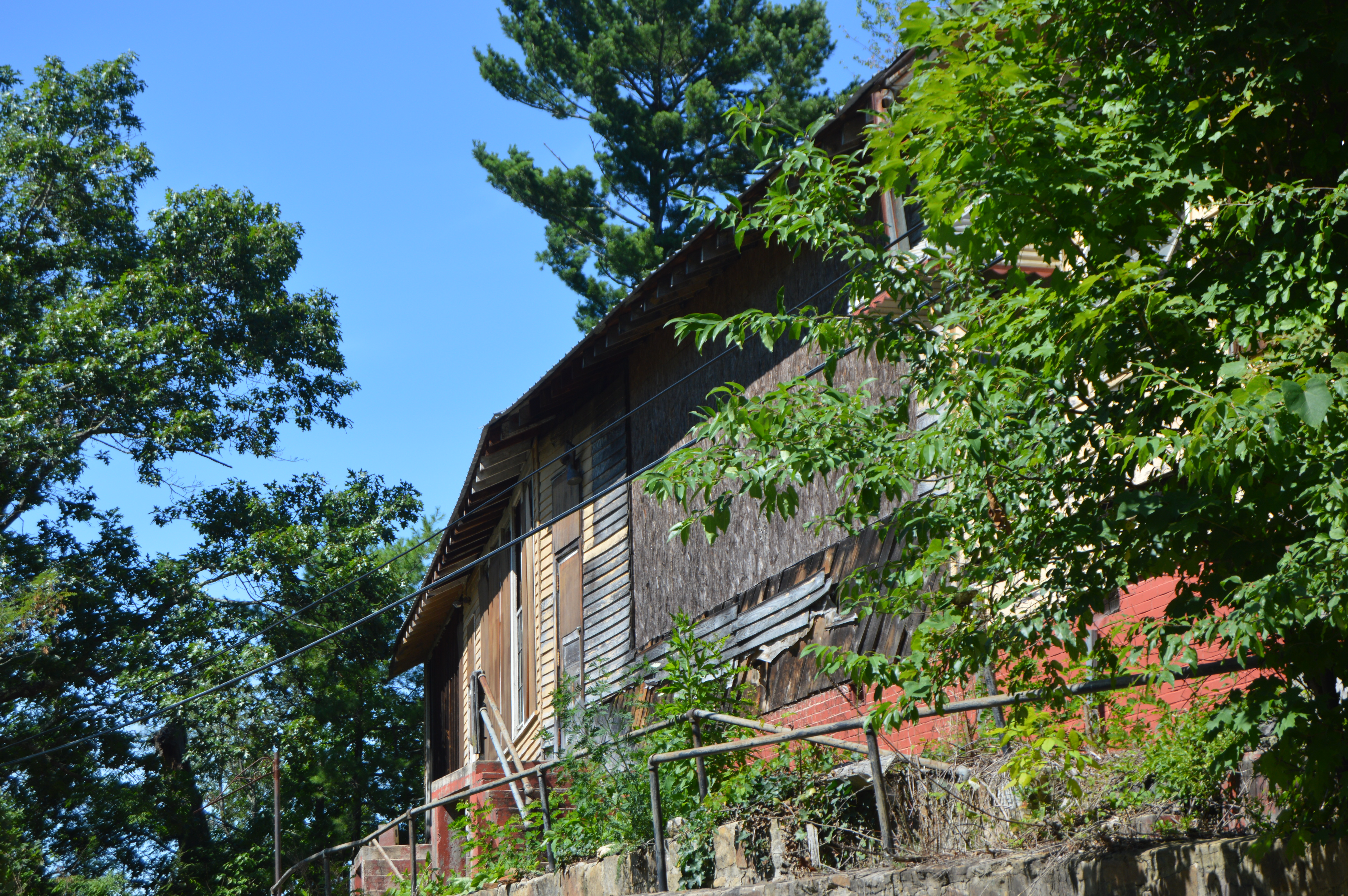 Western side of the Switchback School, located at 210 Pinehurst Heights Road in Switch Back, Virginia, United States. Built in 1925, it is listed on the National Register of Historic Places.